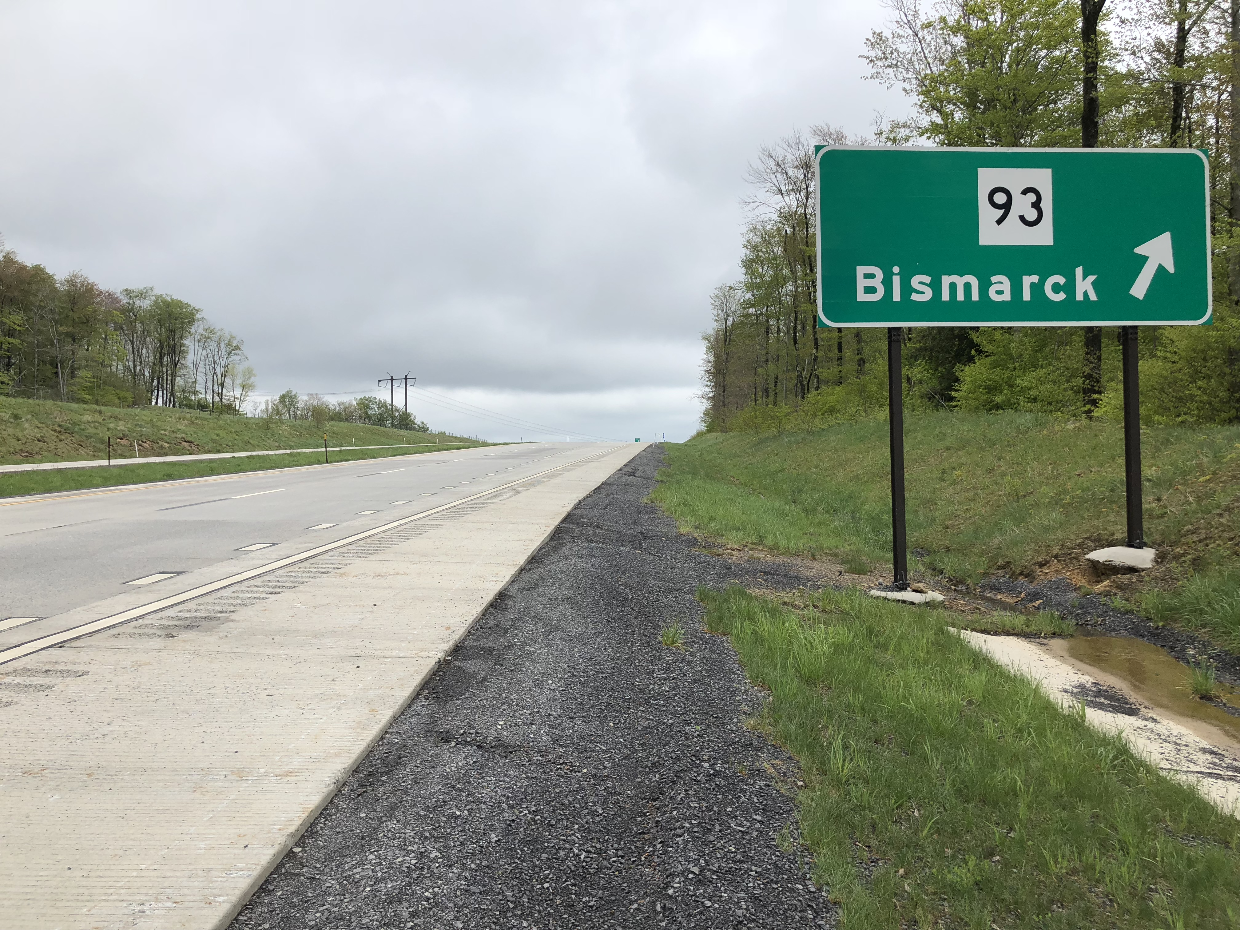 View east along U.S. Route 48 (Corridor H) at the exit for West Virginia State Route 93 (Bismarck) in Bismarck, Grant County, West Virginia